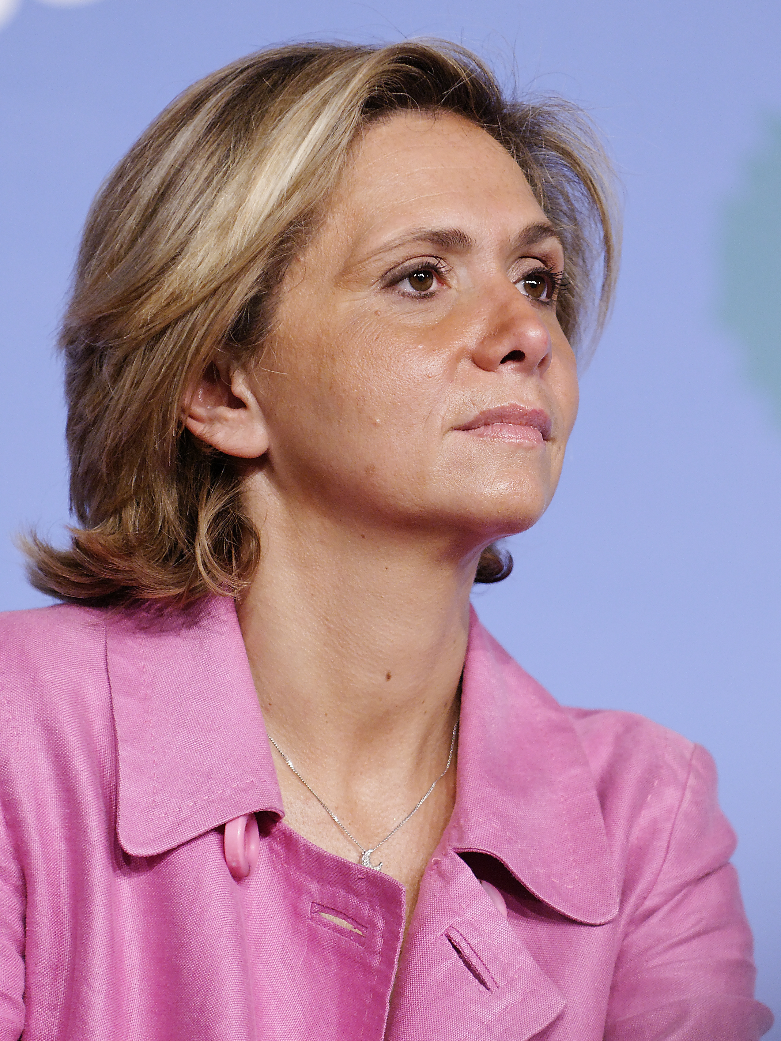 Valérie Pécresse at the UMP launch rally of the 2010 French regional elections campaign in Paris.